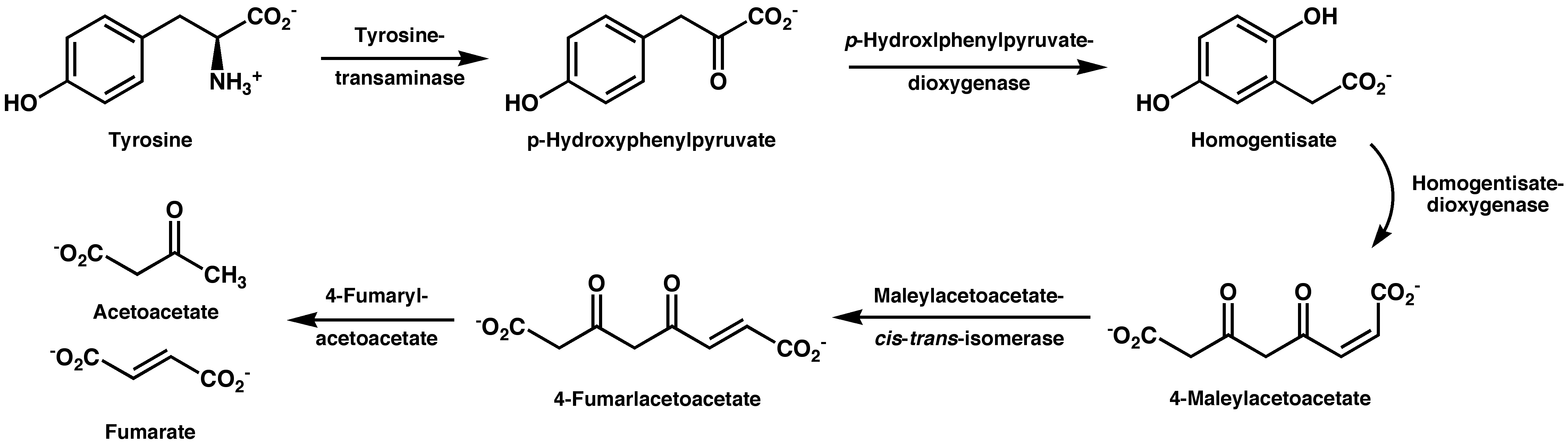 Created myself using ChemDraw